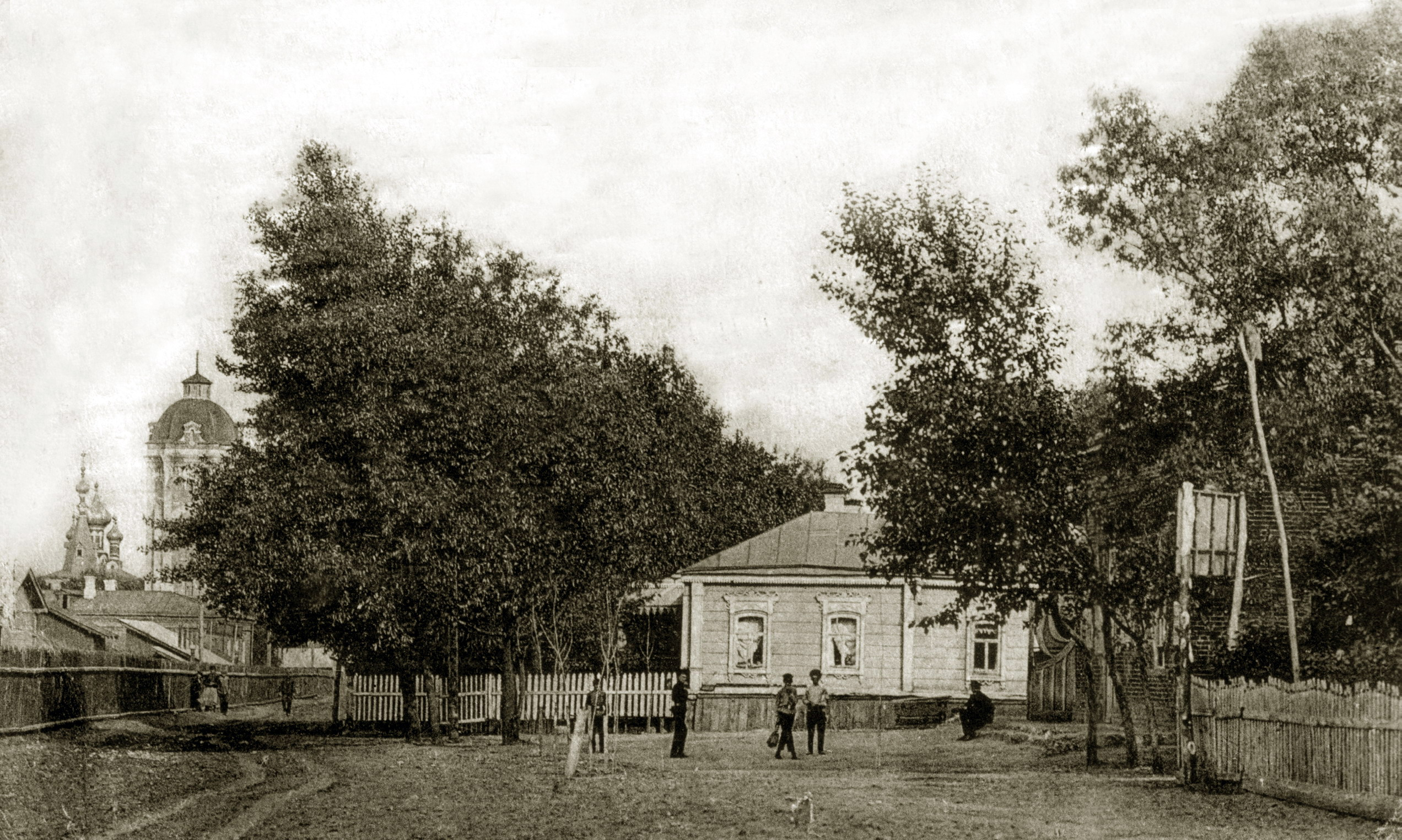 Rtishchevo. Zheleznodorozhnaja street